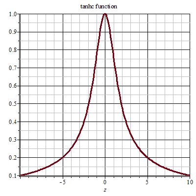 Tanhc 2D plot